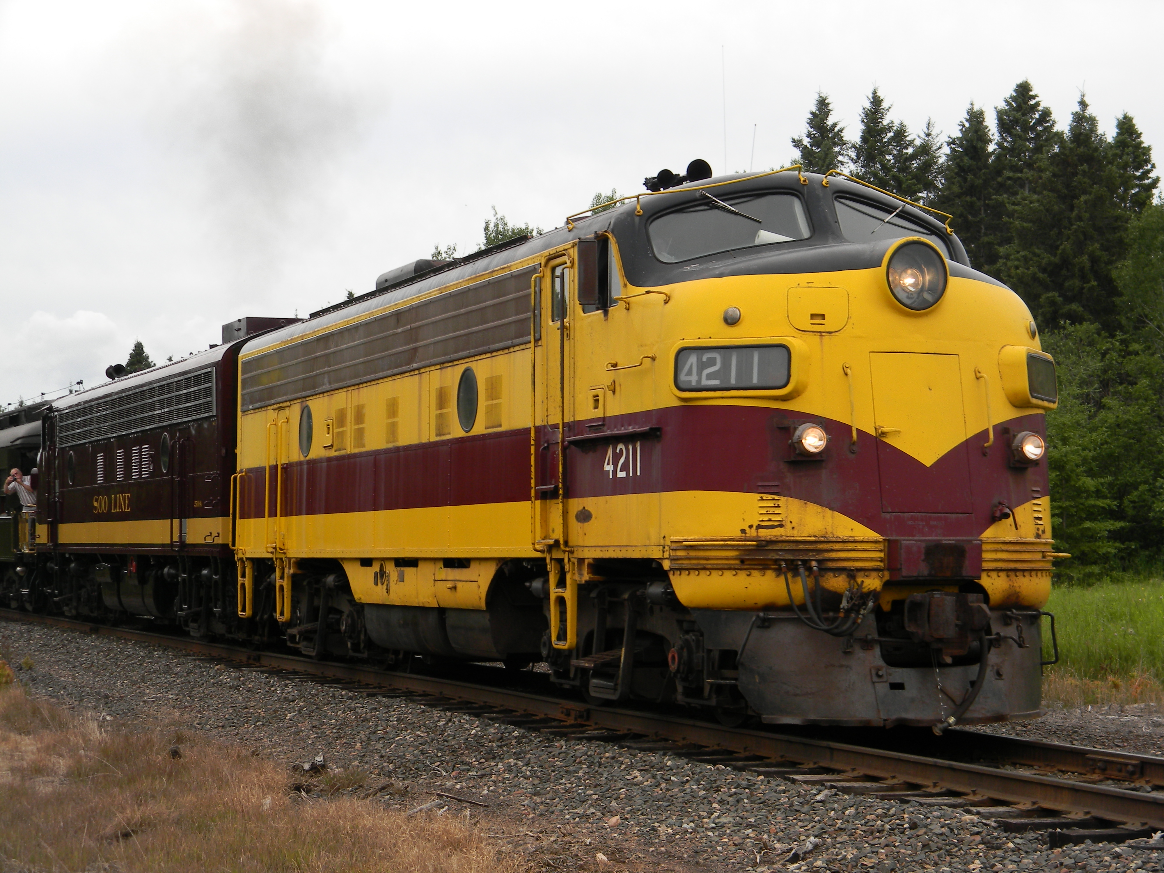 Leading a Streamliner special to Two Harbors